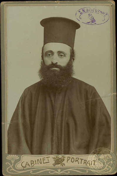 Greek revolutionary Stavros Tsamis from Pisoder, Greece